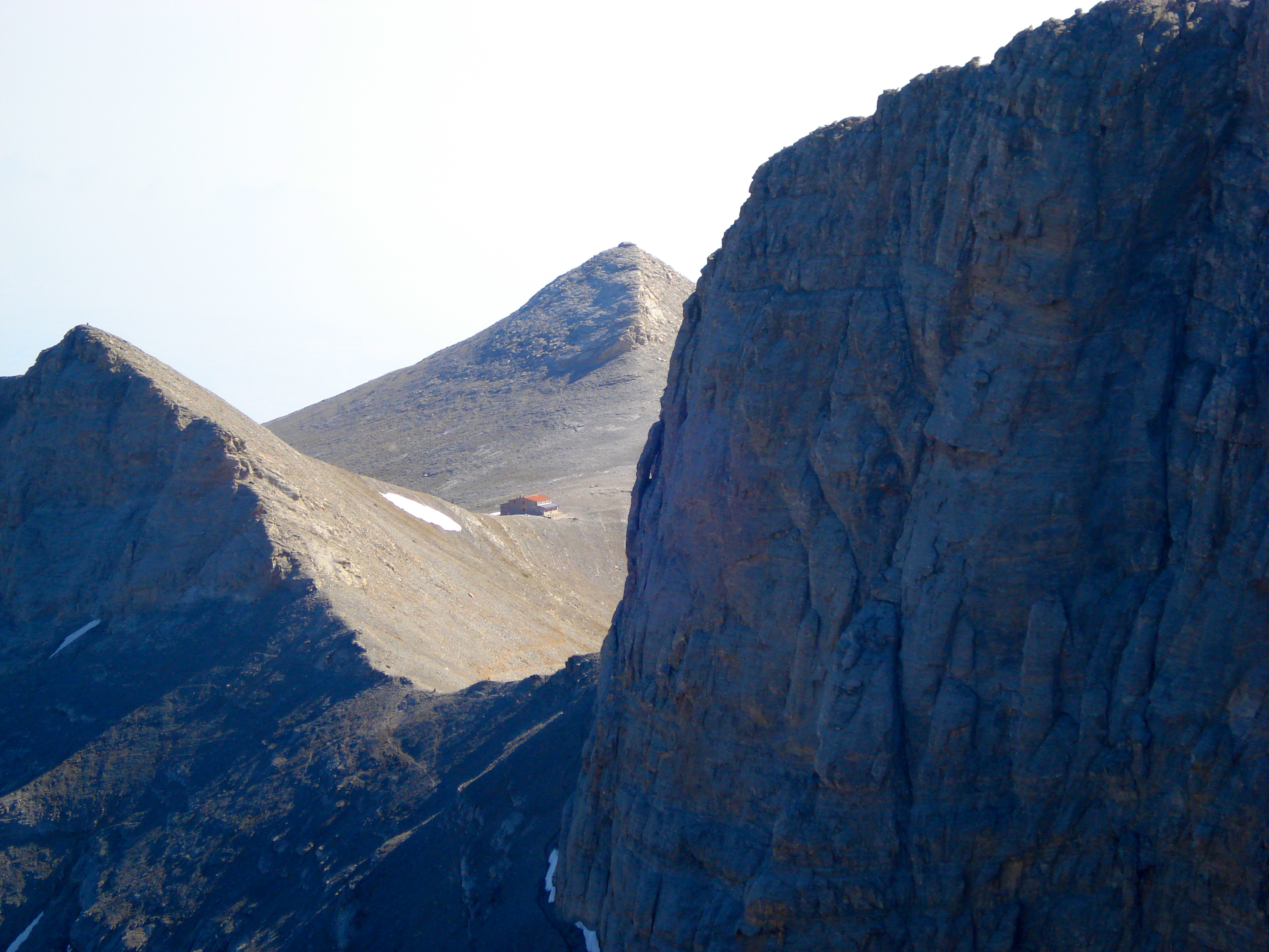 Olympus mountain refuge Spilios Agapitos This is a photography of Natura 2000 protected area with ID GR1250001